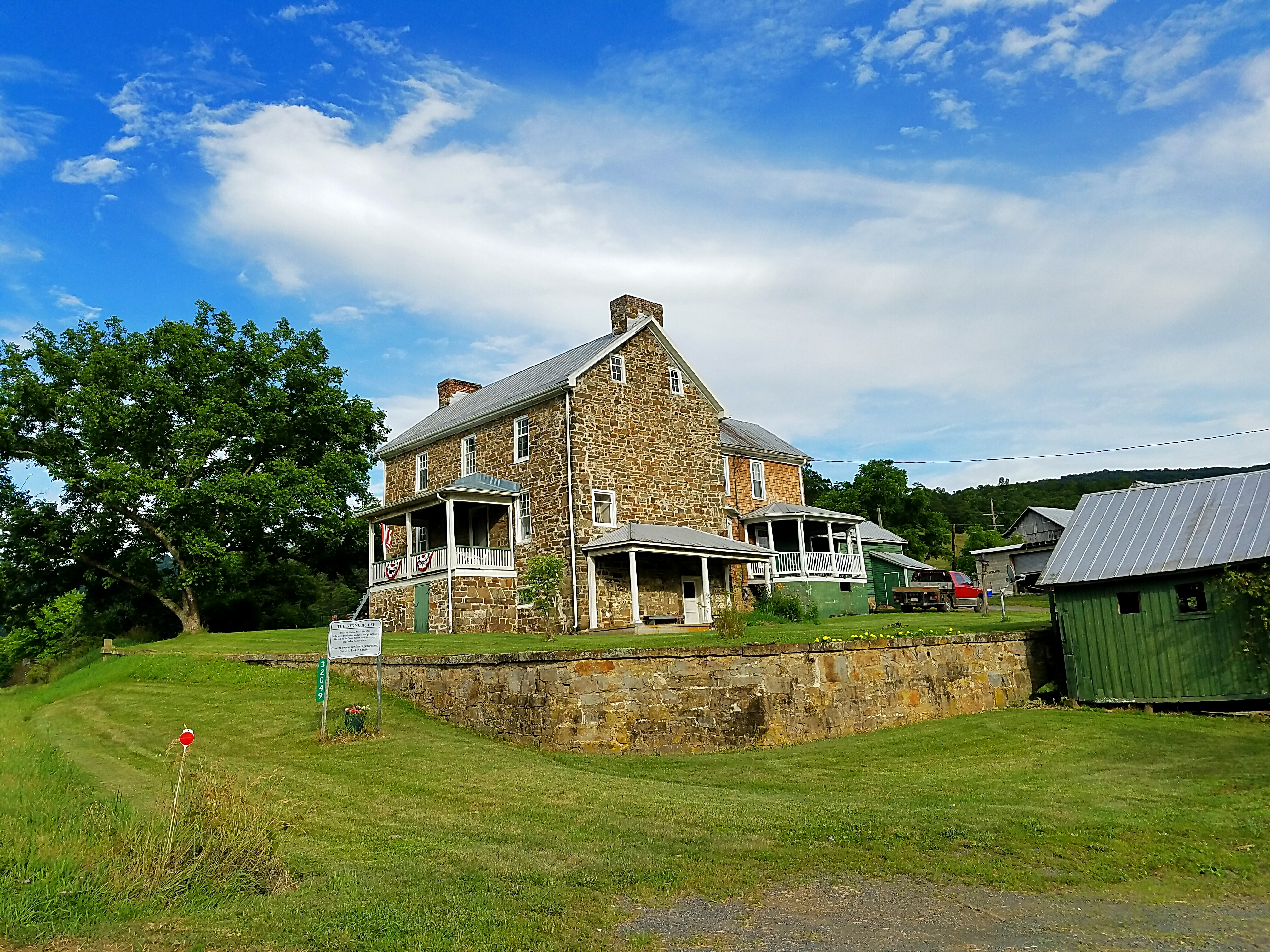 The Sloan-Parker House or Stone House, constructed in 1790 of locally quarried fieldstone for Richard Sloan, was listed on the National Register of Historic Places in 1975. It is located along the Northwestern Turnpike (U.S. Route 50) near Junction, West Virginia. Photographed by Arun Prakash of Washington, D.C. on July 2, 2016.